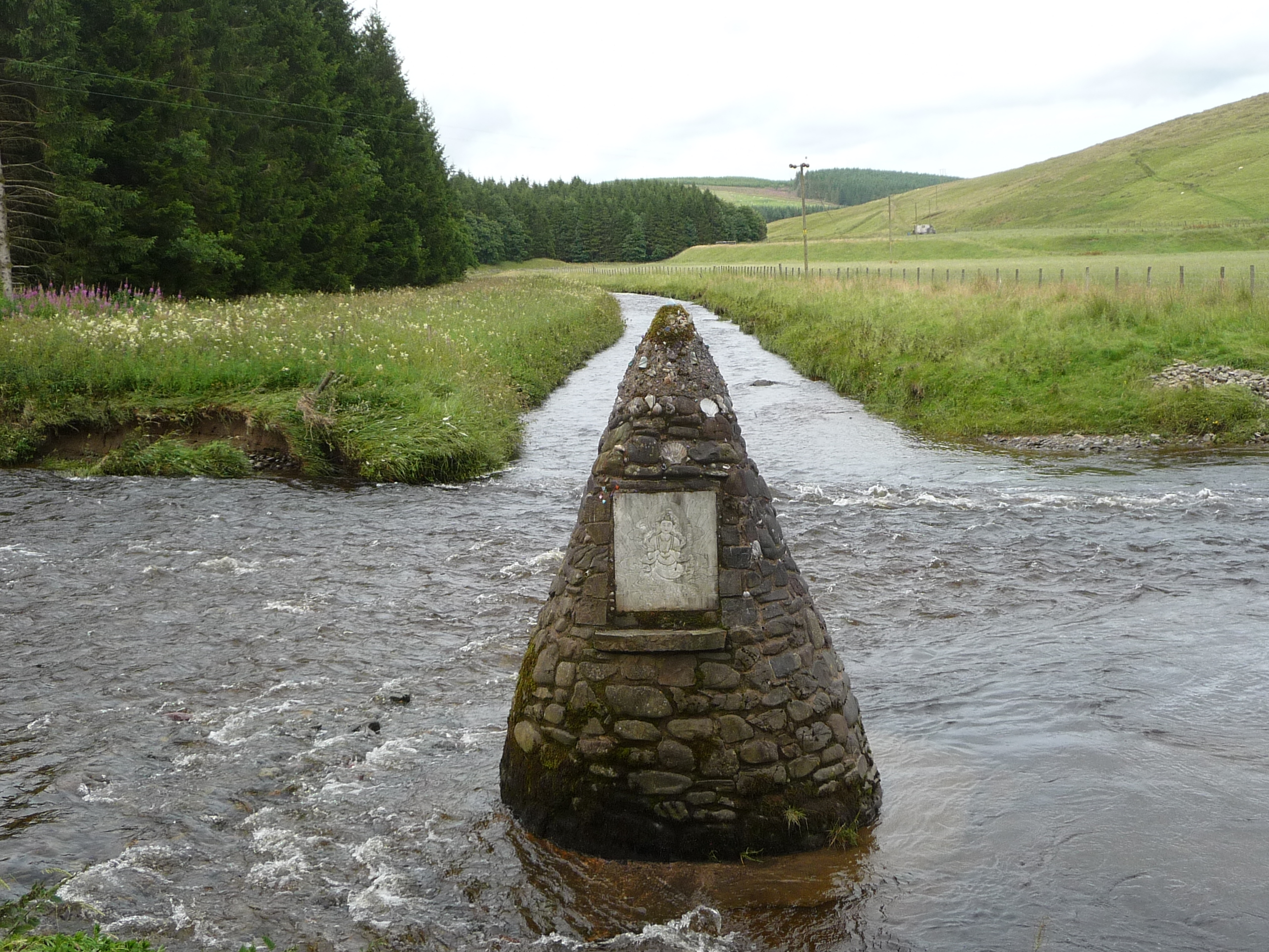 A conical cairn stands in the middle of the White Esk river (flowing from left to right). Behind the cairn the Moodlaw Burn joins the river. The cairn carries an image of a Buddhist deity - behind the photographer is Kagyu Samyé Ling Monastery and Tibetan Centre, Eskdalemuir, Dumfries and Galloway, Scotland